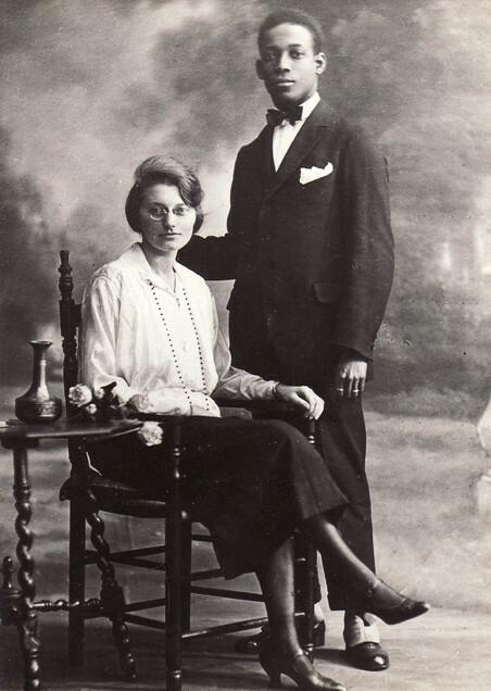 Petronella (Nel) Borsboom and Anton de Kom, ca. 1926